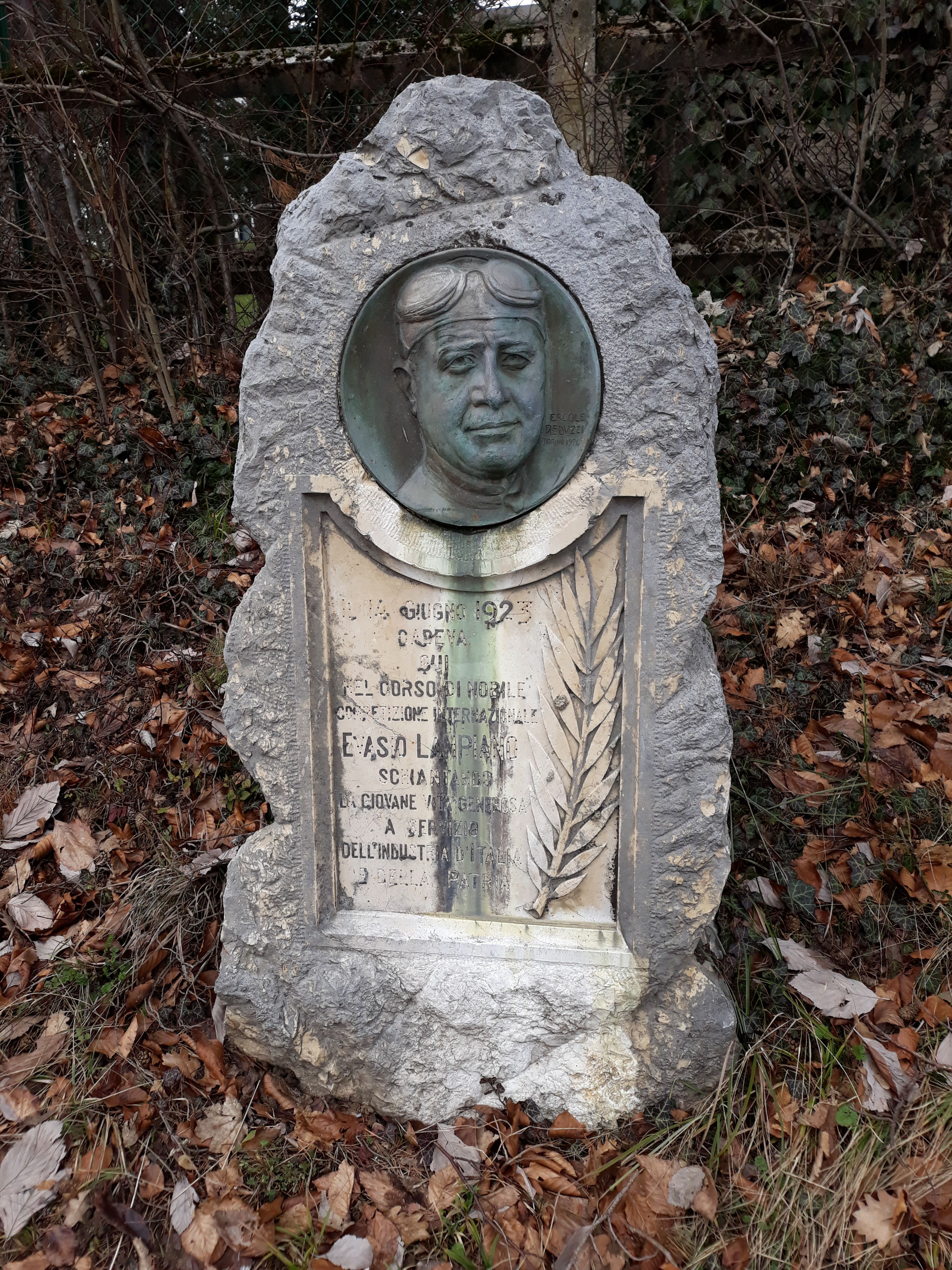 Cenotaph of Evasio Lampiano, Italian pilot on the side of French national road 5 in Gex, (Ain, France) currently known as "Paris street". The text says : "On June 14, 1923 fell here in the course of a noble international competition Evasio Lampiano crashing the generous young life at the service of the Italian industry and the country." The bronze portait is signed Ercole Reduzzi (1924)